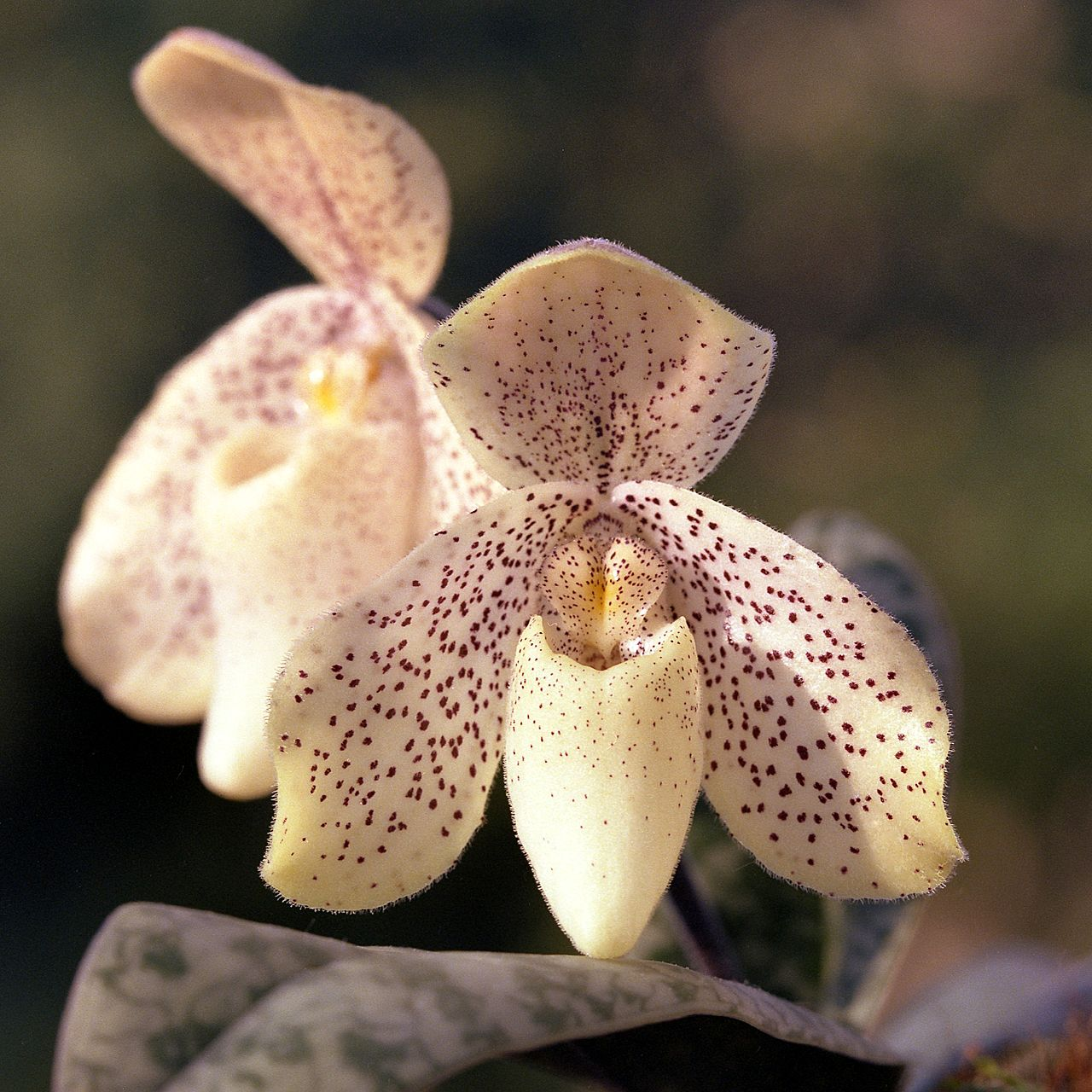 Paphiopedilum concolor - flower